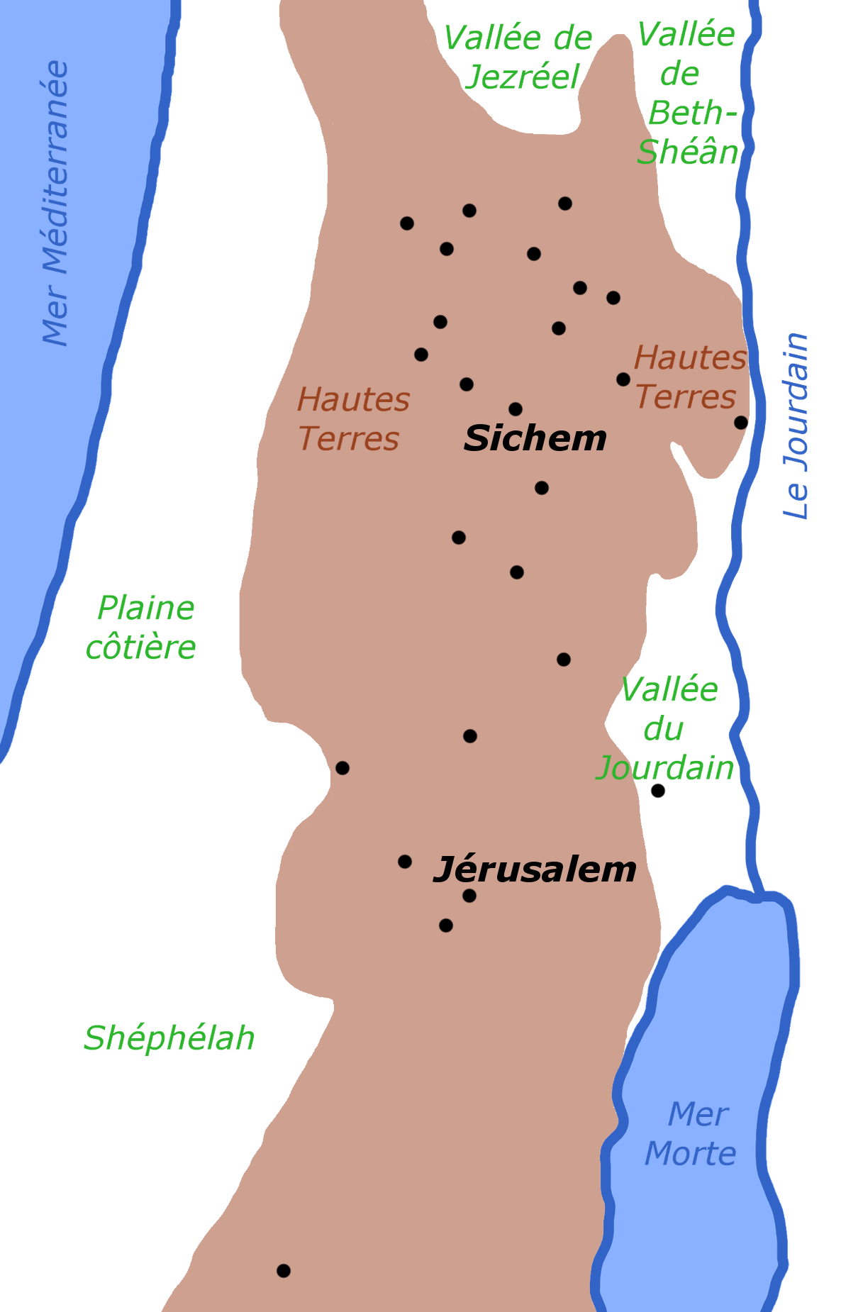 This map shows the archaeological sites of settlements at Late Bronze Age, on the Canaan Highlands. Map drawn according to the film « La Bible dévoilée », (Israël Finkelstein).